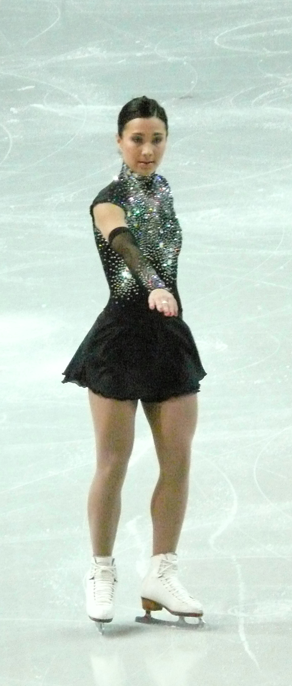 Susanna Pöykiö (FIN) at the short program of the European Championships 2007 in Warsaw